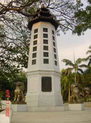 The Lim Bo Seng Memorial in Esplanade Park, Singapore.